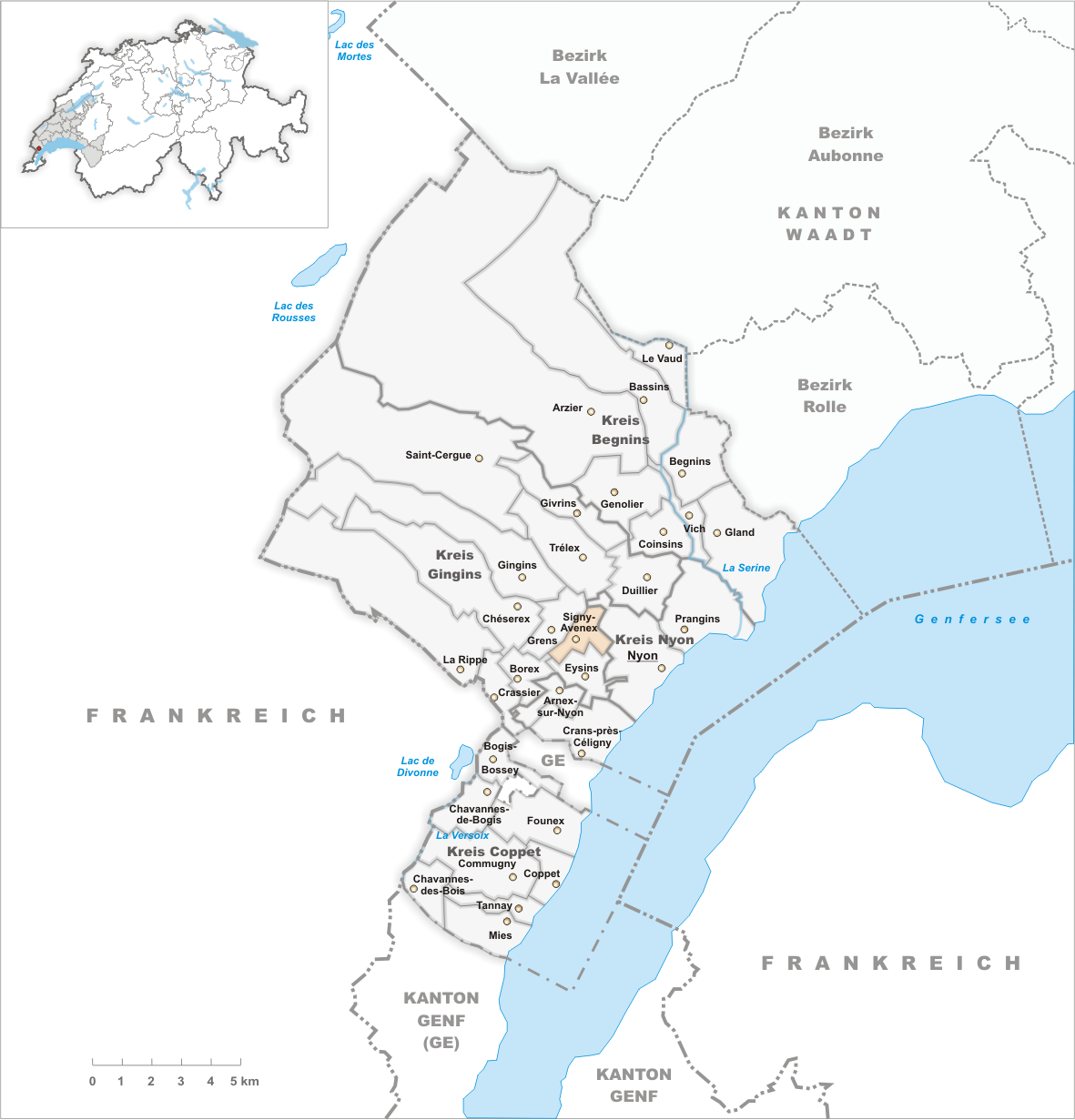 Municipality Signy-Avenex